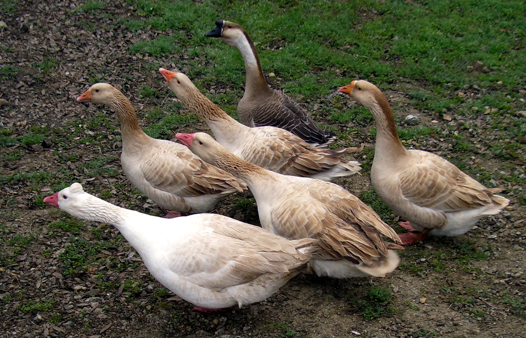 Synchronized stretching